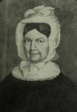 Sarah Abbot, painted by T. Buchanan Read, circa mid 1800s. She was a primary contributor to the early founding of a private school for women, in Andover, Massachusetts, and the school founded was named "Abbot Academy" as a result.